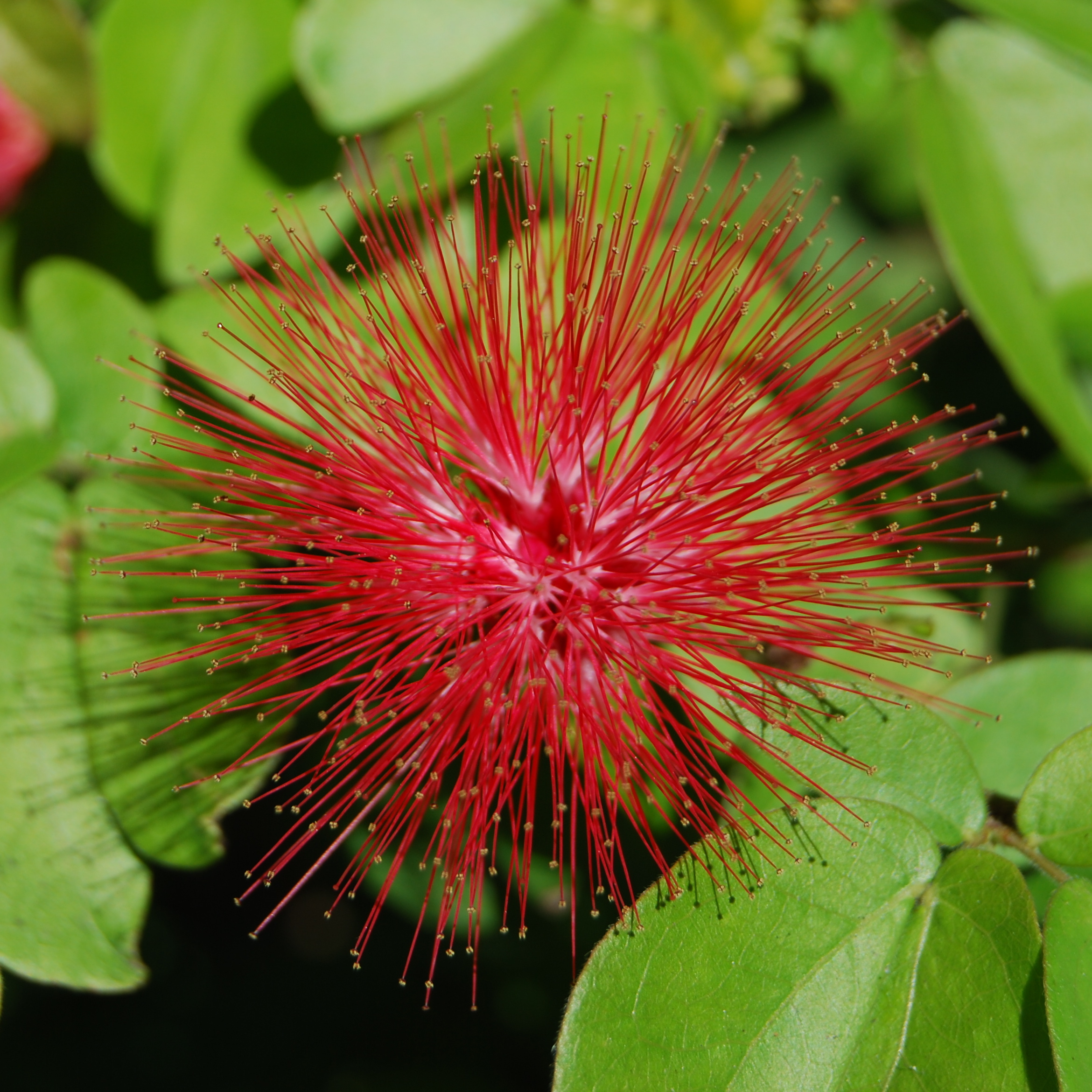 Calliandra emarginata in Key West, Florida, United States